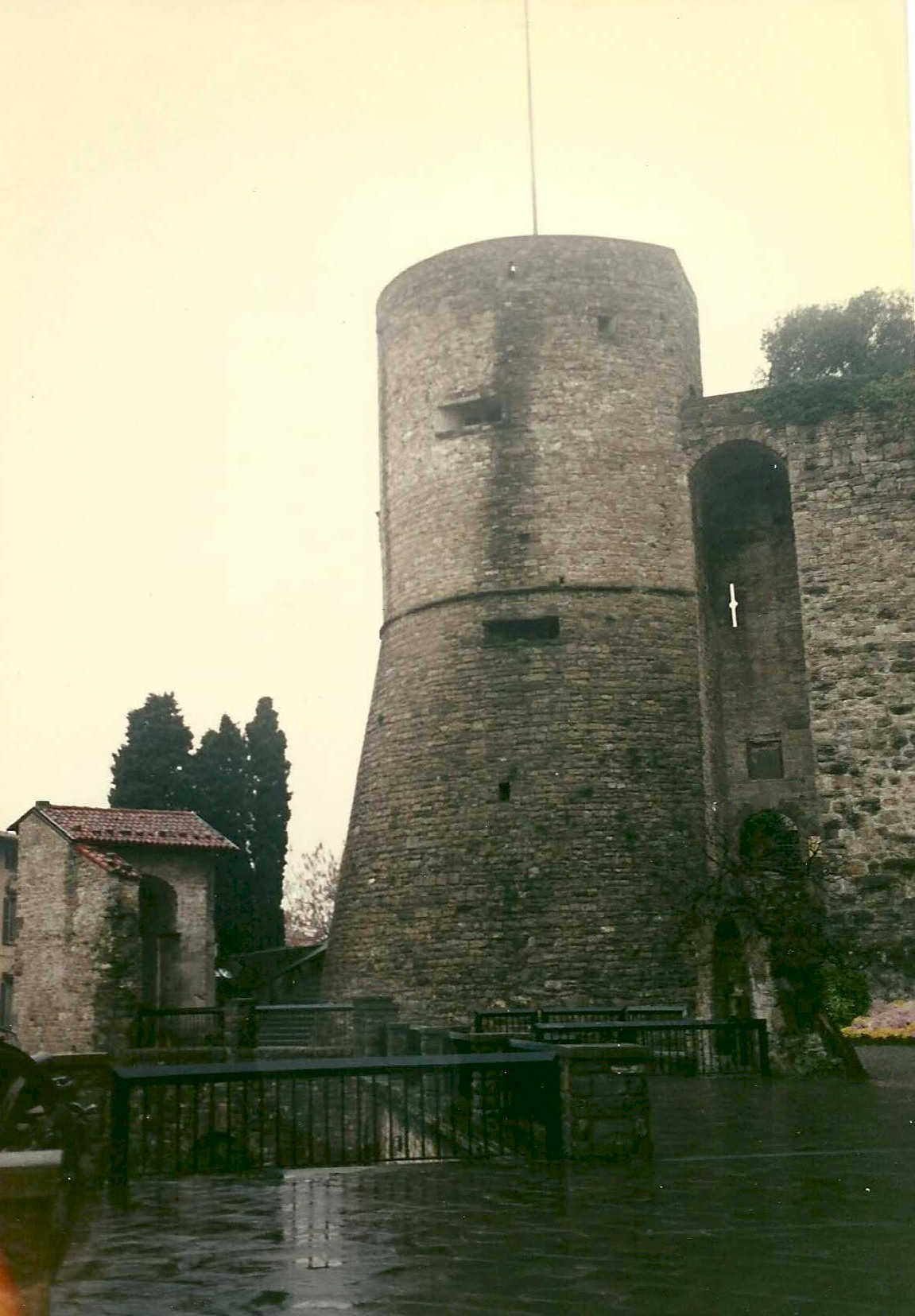 Tower of Bergamo castle (Rocca).